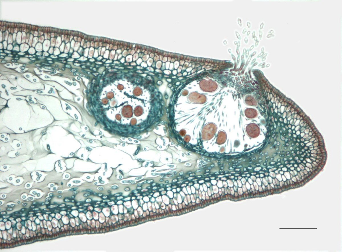 Light microscopy of Fucus showing a Fucus conceptacle with sterile paraphyses, oogonium, and an ostiole where the opening in the surface of the receptacle is. There is also an immature conceptacle beside the opening receptacle. Scale bar = 0.2mm.